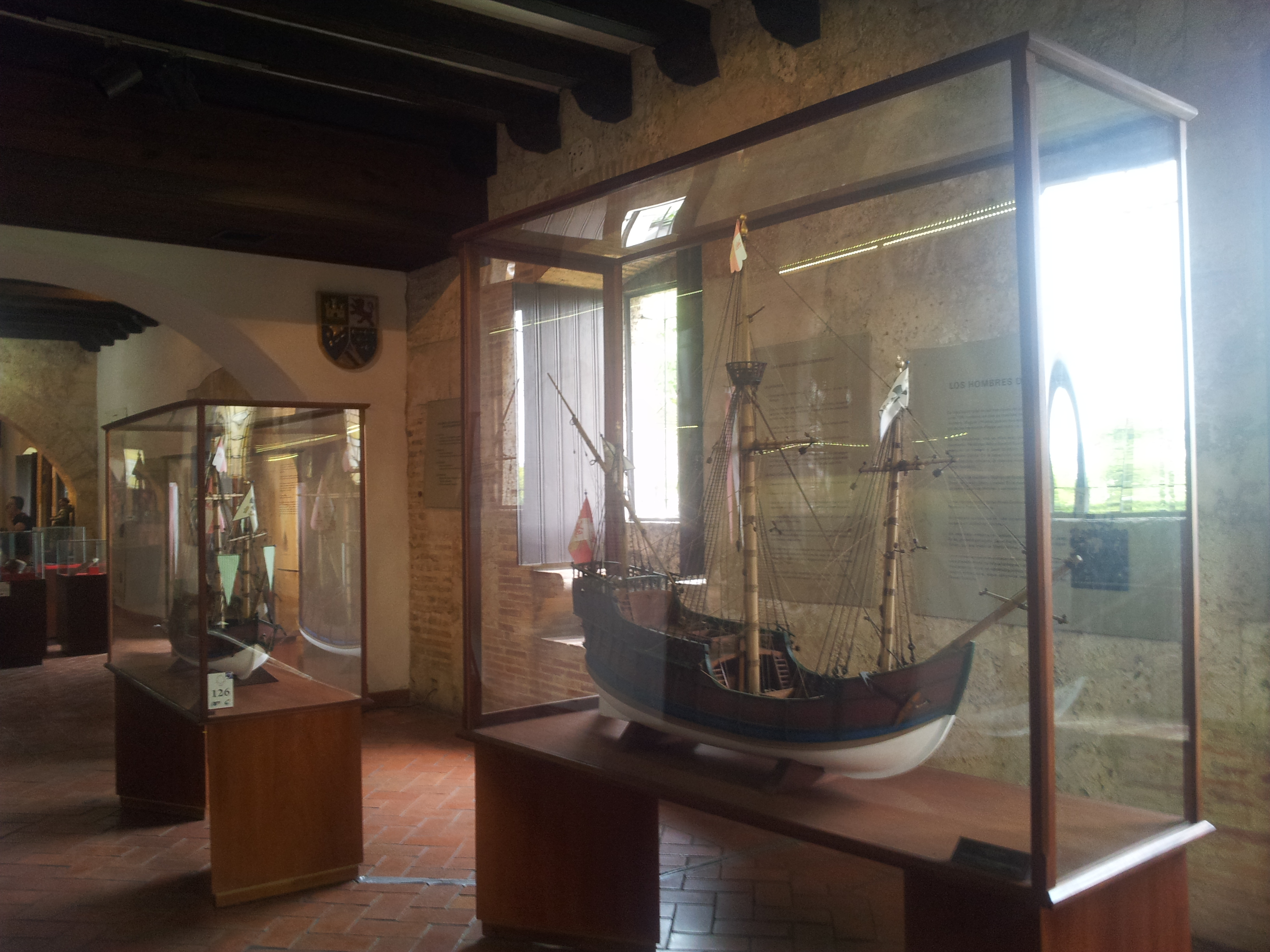 1st Floor Museo de las Casas Reales Santo Domingo